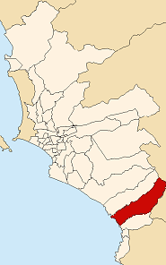 Map of Lima highlighting the Punta Negra district in southern Lima.